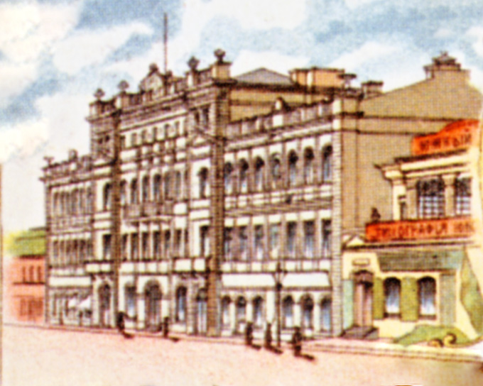 Old picture